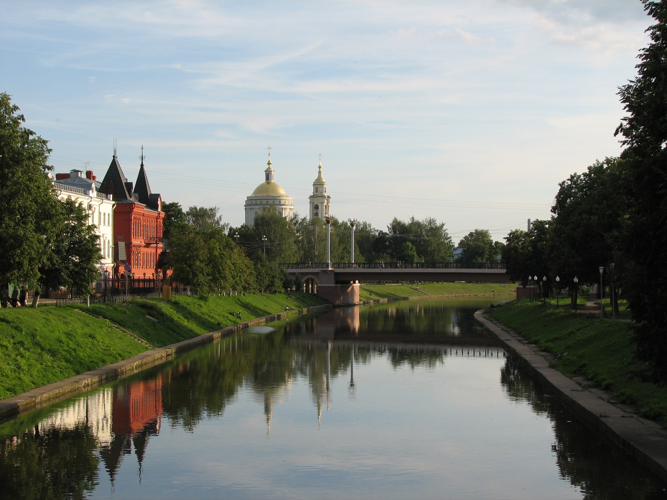 Oryol, river Orlik